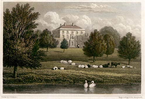 Maple Hayes Hall from the pond to the south west.